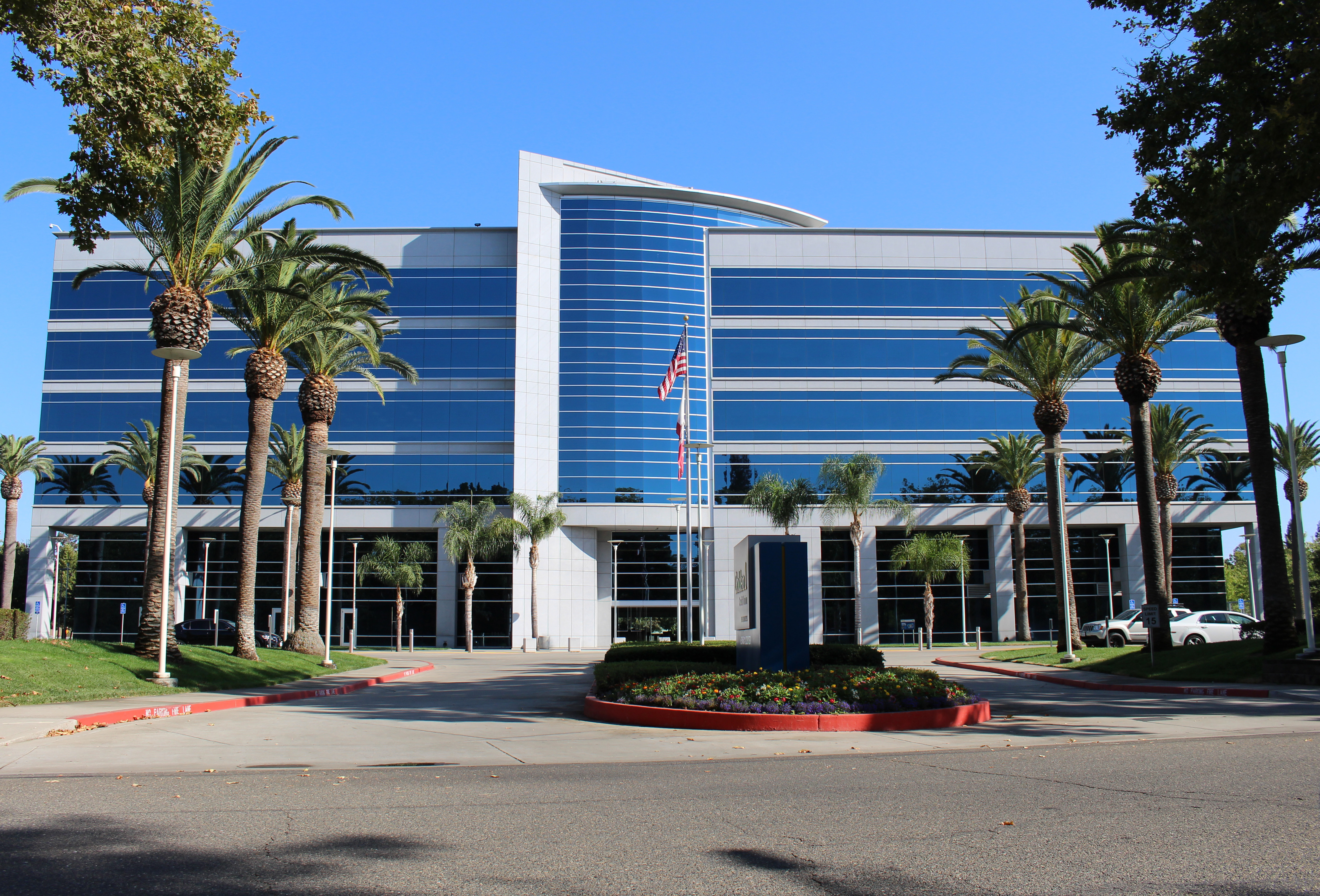 The headquarters of the Golden 1 Credit Union at 8913 California Center Drive in Sacramento, California. Photographed by user Coolcaesar on September 5, 2016.